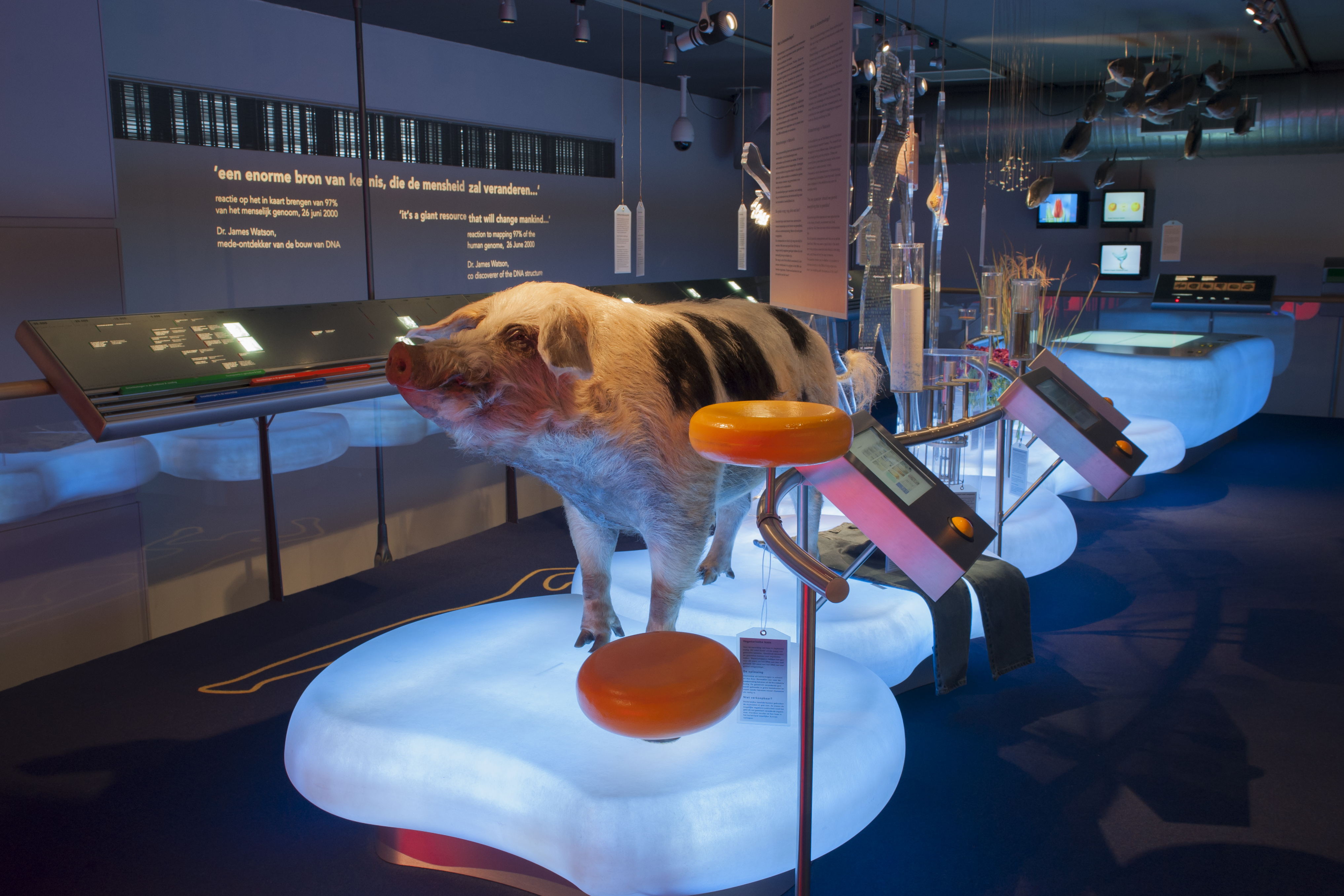 Natural history museum Naturalis, Leiden. Exhibition Biotechnology. Overview. Transgenic pig and cheese. Chromatography of DNA.